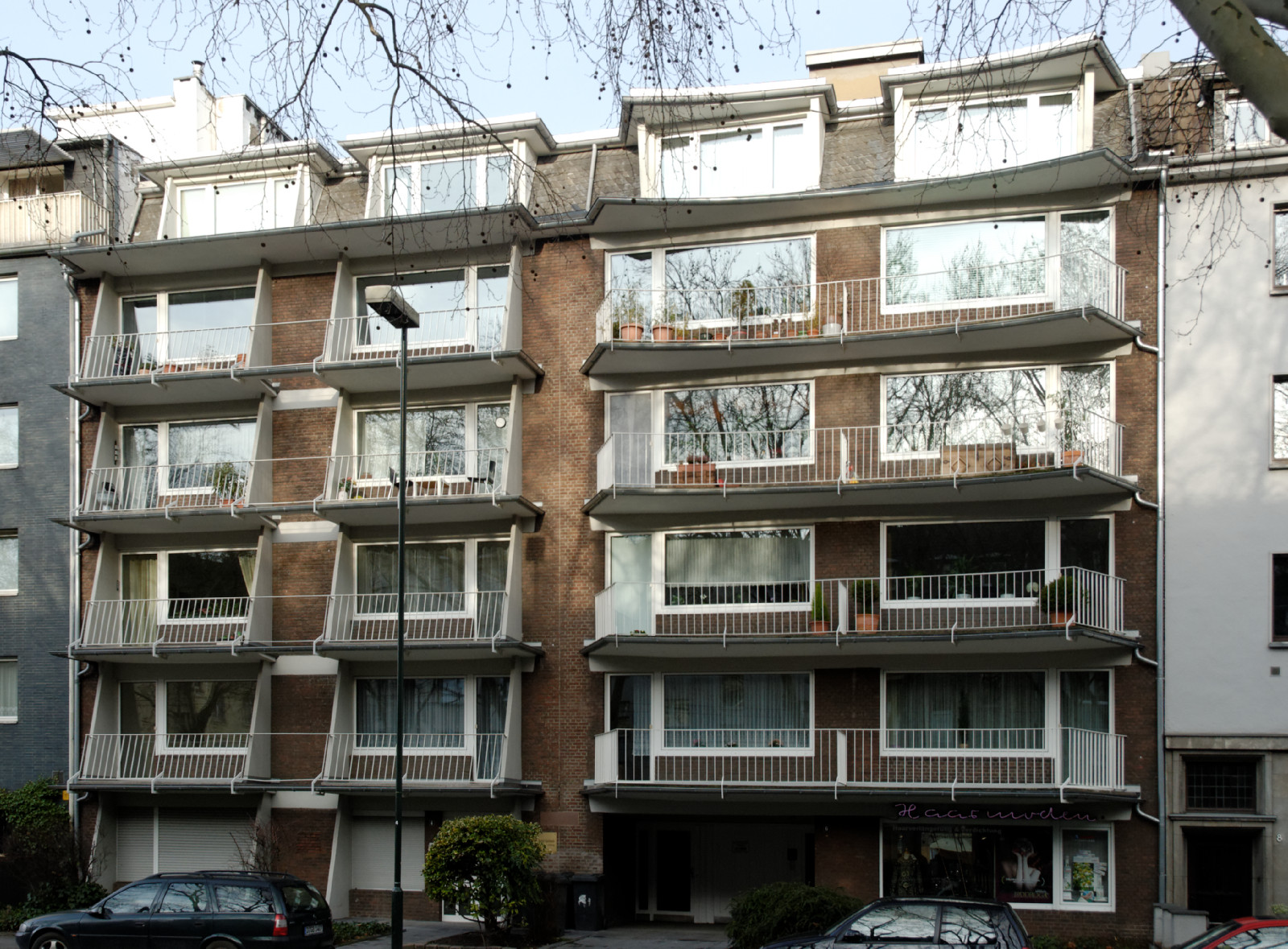 House Lindemannstraße 4, 6 in Düsseldorf-Düsseltal, Germany